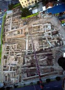 Pogled na ostanke emonskih zgradb, cestnega križišča in kloake ob arheoloških raziskavah na prostoru načrtovane nove stavbe Univerzitetne knjižnice med Slovensko, Aškerčevo in Zoisovo cesto.